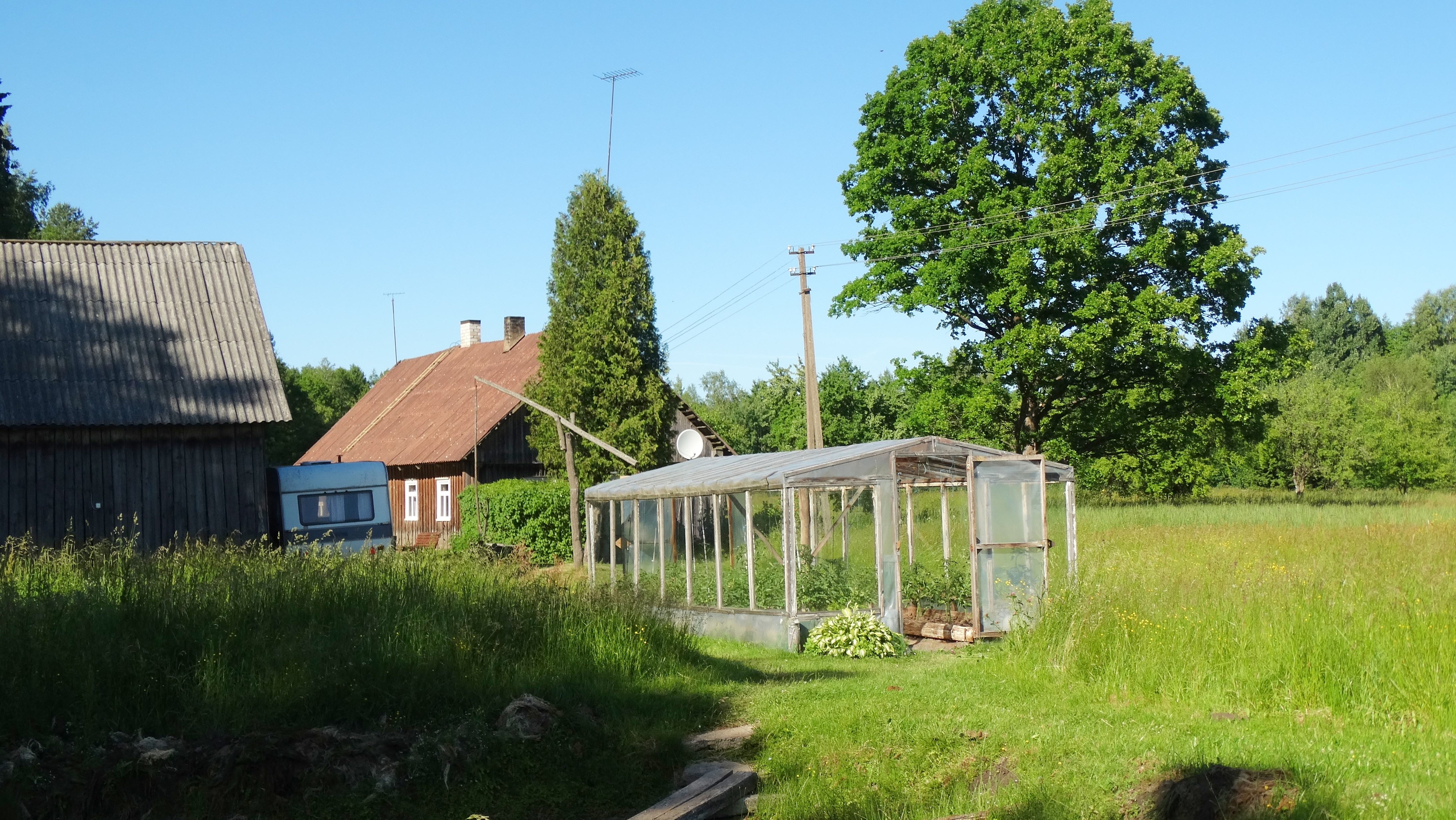 Kupsčiai, Raseiniai district, Lithuania